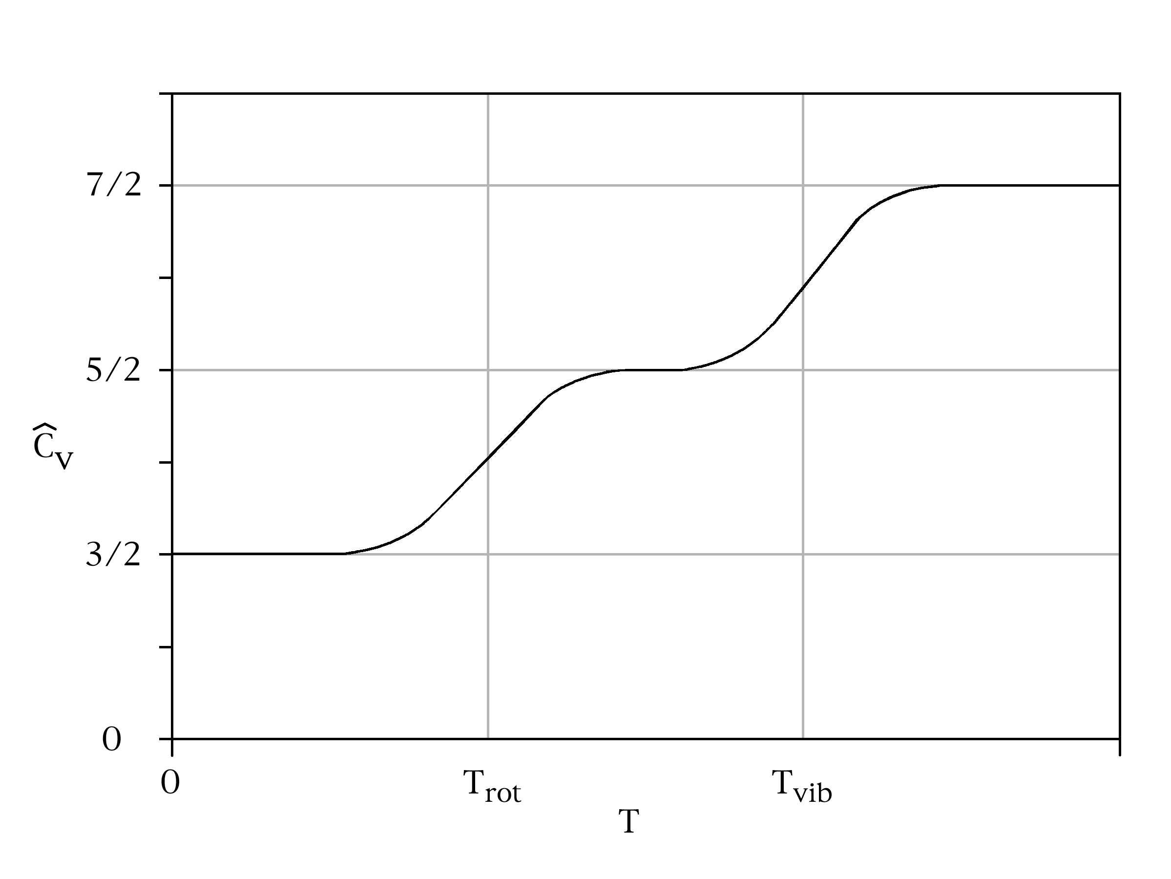 An idealized plot of the dimensionless specific heat of a diatomic gas. Below Trot, the molecules behave as point particles with no internal degrees of freedom. Between Trot and Tvib, the particle behaves as a rigid body with two rotational degrees of freedom. Above Tvib, the two vibrational degrees of freedom become active.